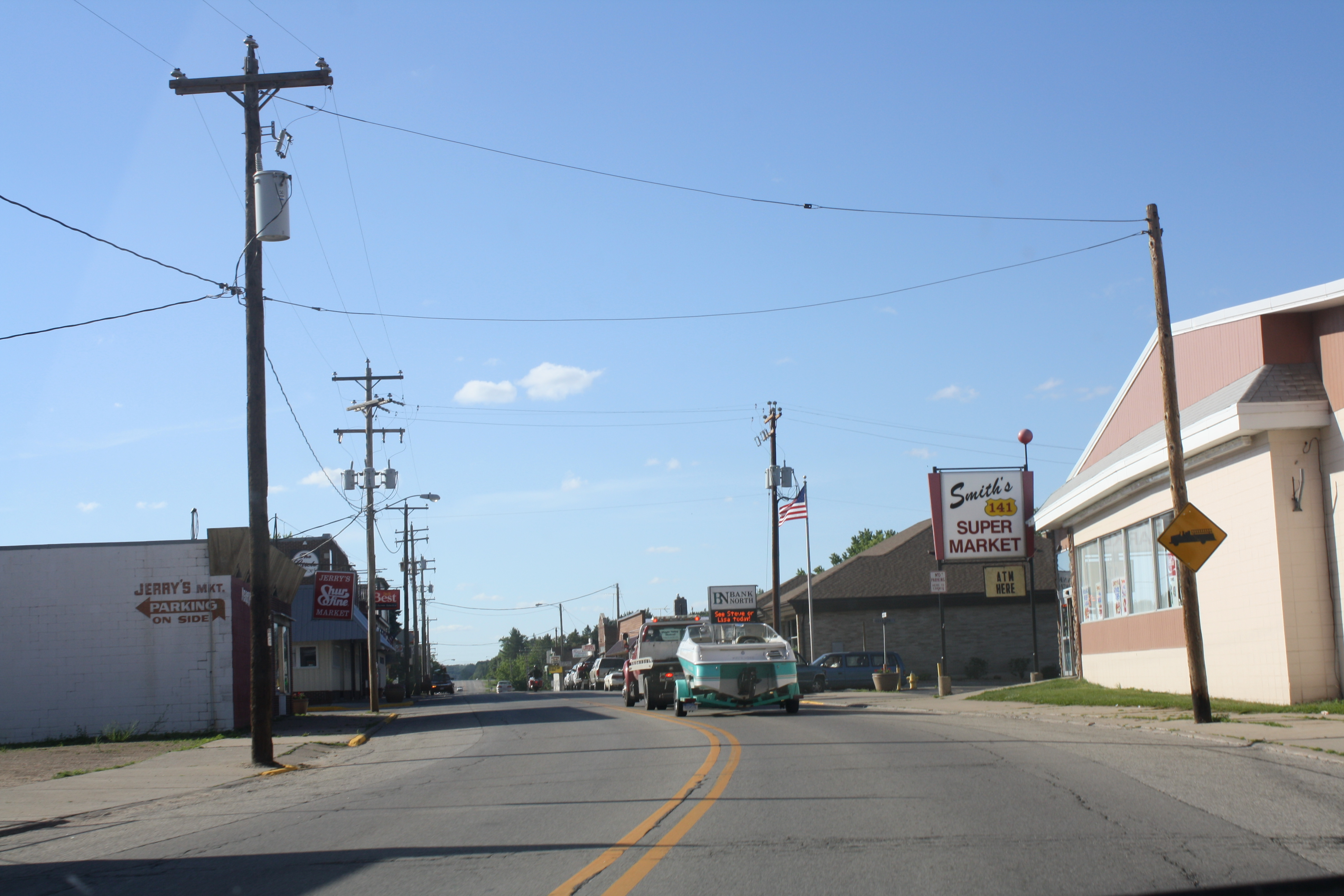 Looking north at downtown Wausaukee on U.S. Route 141.